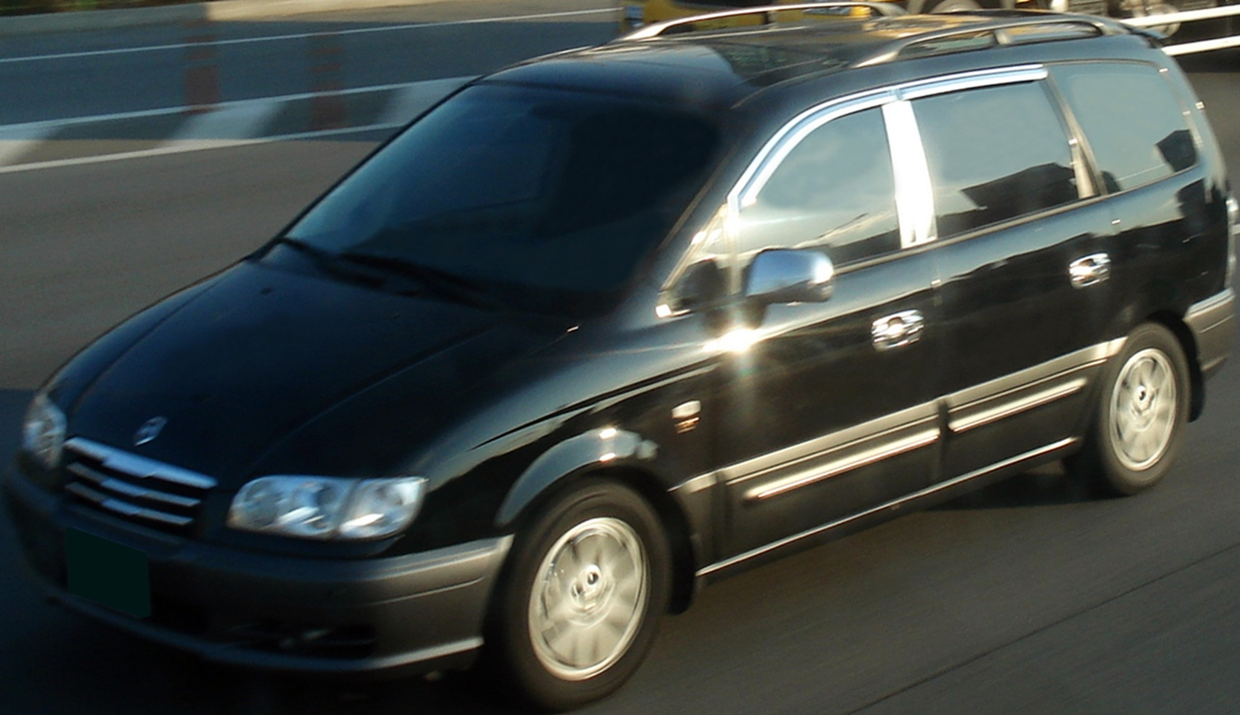 Hyundai Trajet XG